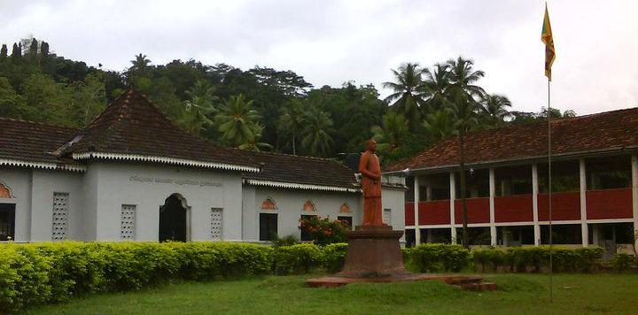 Front Interface of School College